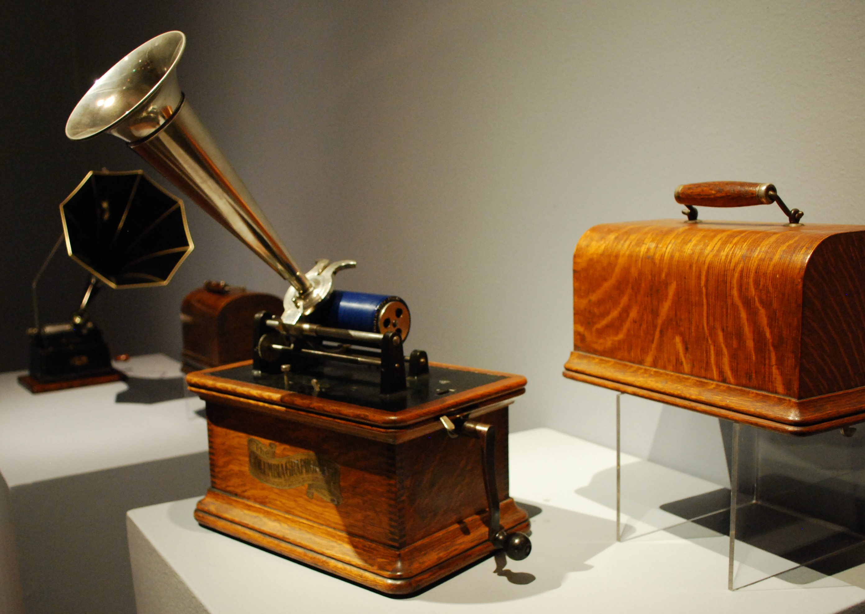 A Columbia model AZ Graphophone, ca. 1905-07, with a Lyric type reproducer from the Salvador Velez collection